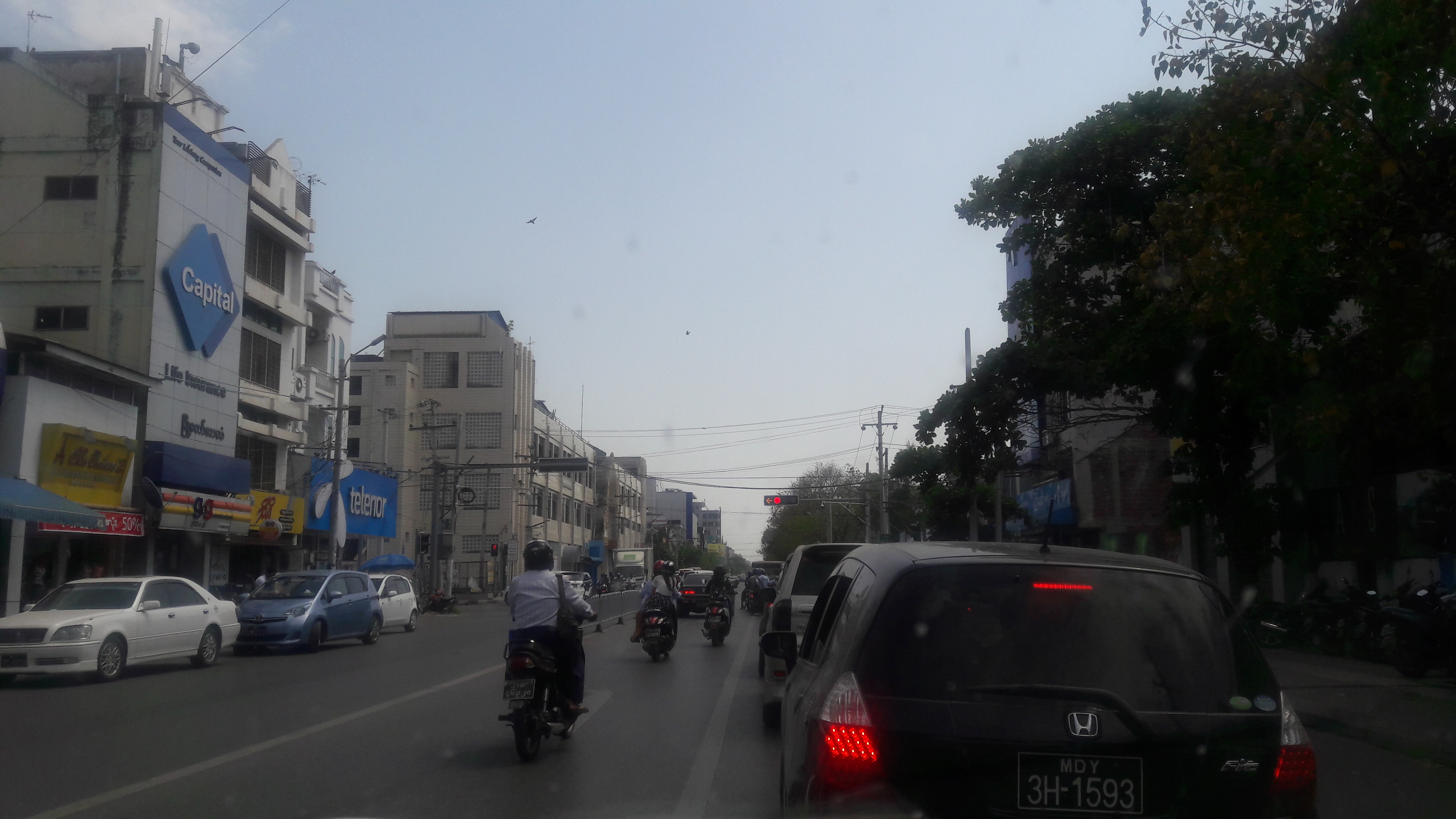 The 73rd road of Mandalay